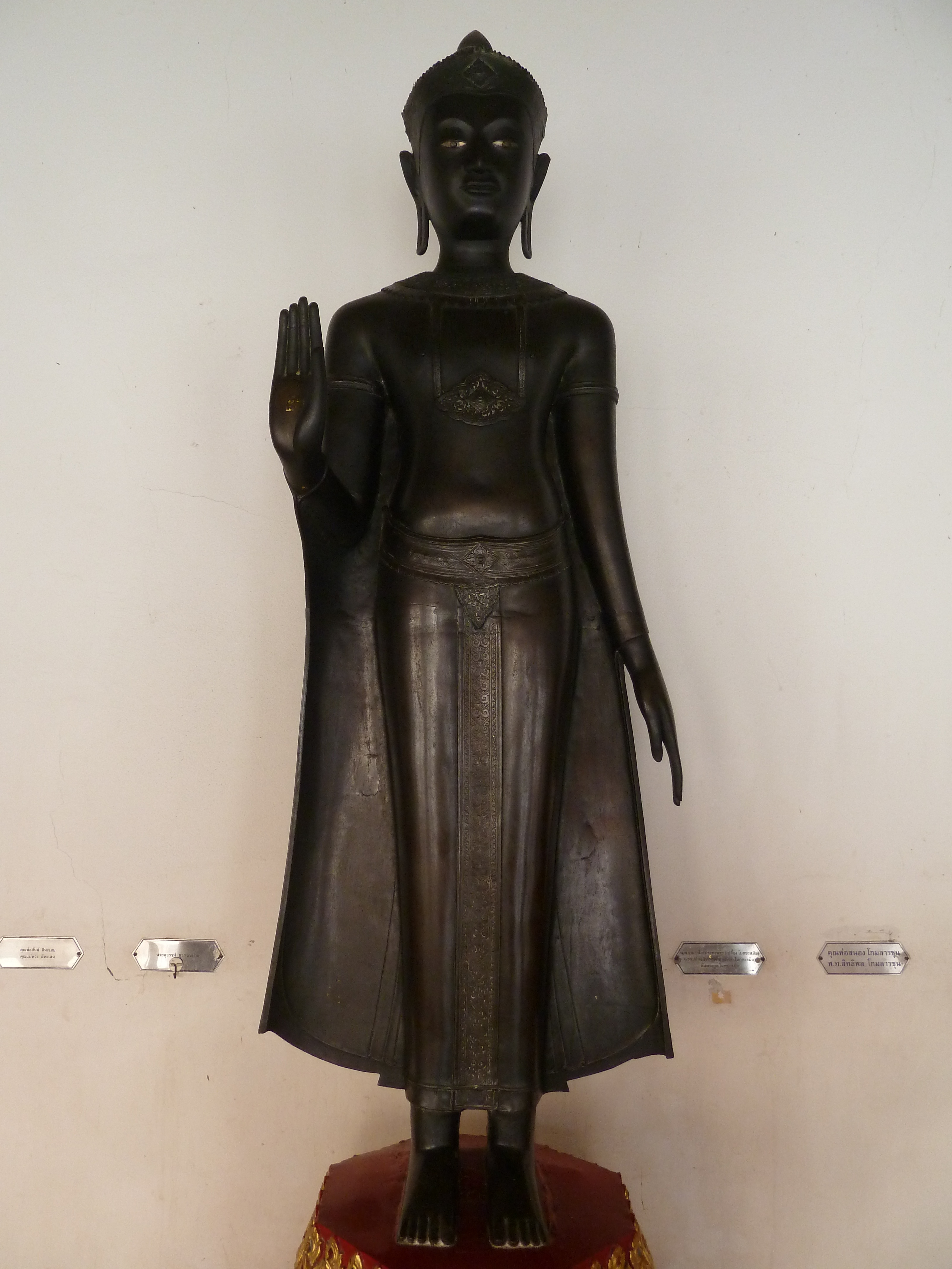 Wat Benchamabophit Dusitvanaram -Marble Temple Buddha Statues, Bangkok, Thailand